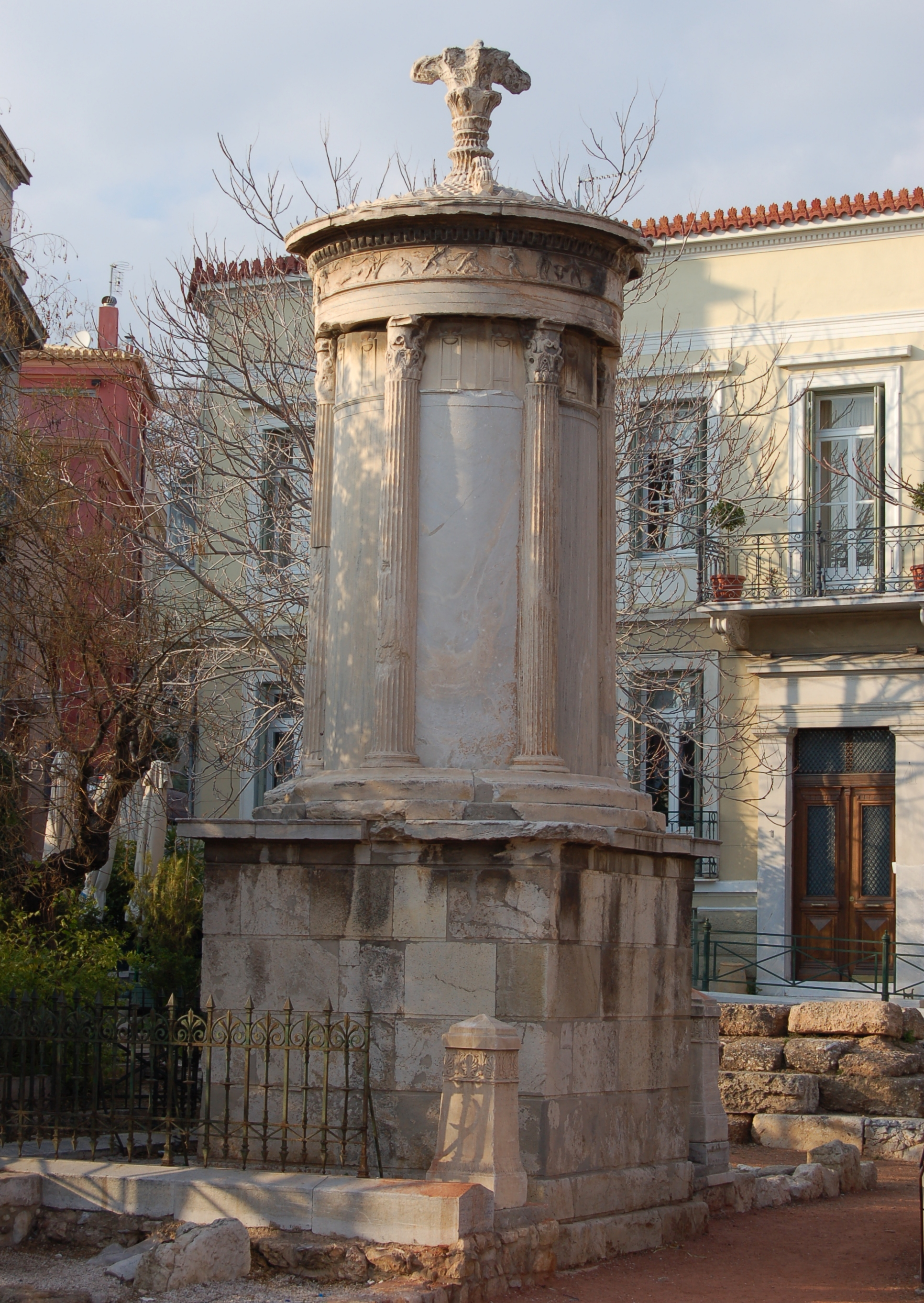 Photograph of the Choragic Monument of Lysicrates in Athens.